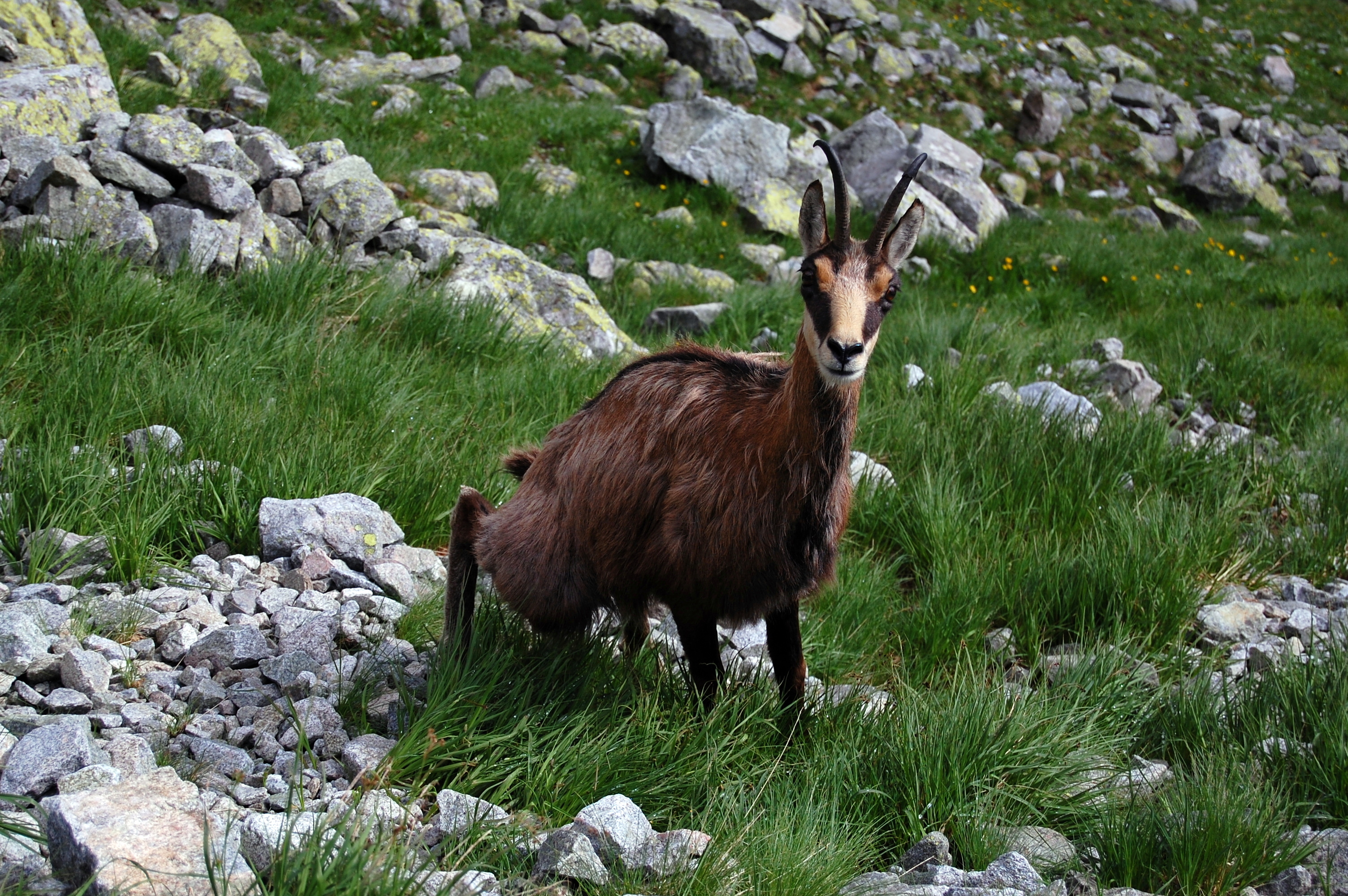 Chamois (Rupicapra rupicapra) in the Tatra Mountains (Červená dolina).